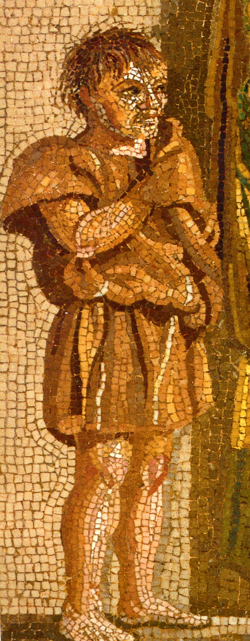 Boy watching the musicians play. Detail of a roman mosaic of a street scene with musicians from the Villa del Cicerone in Pompeii. Ther mosaic is signed by Dioskurides of Samos. Museo Archeologico Nazionale (Naples).